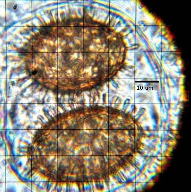 A spore from the Oregon truffle, species Tuber oregonense Trappe, Bonito & Rawlinson.